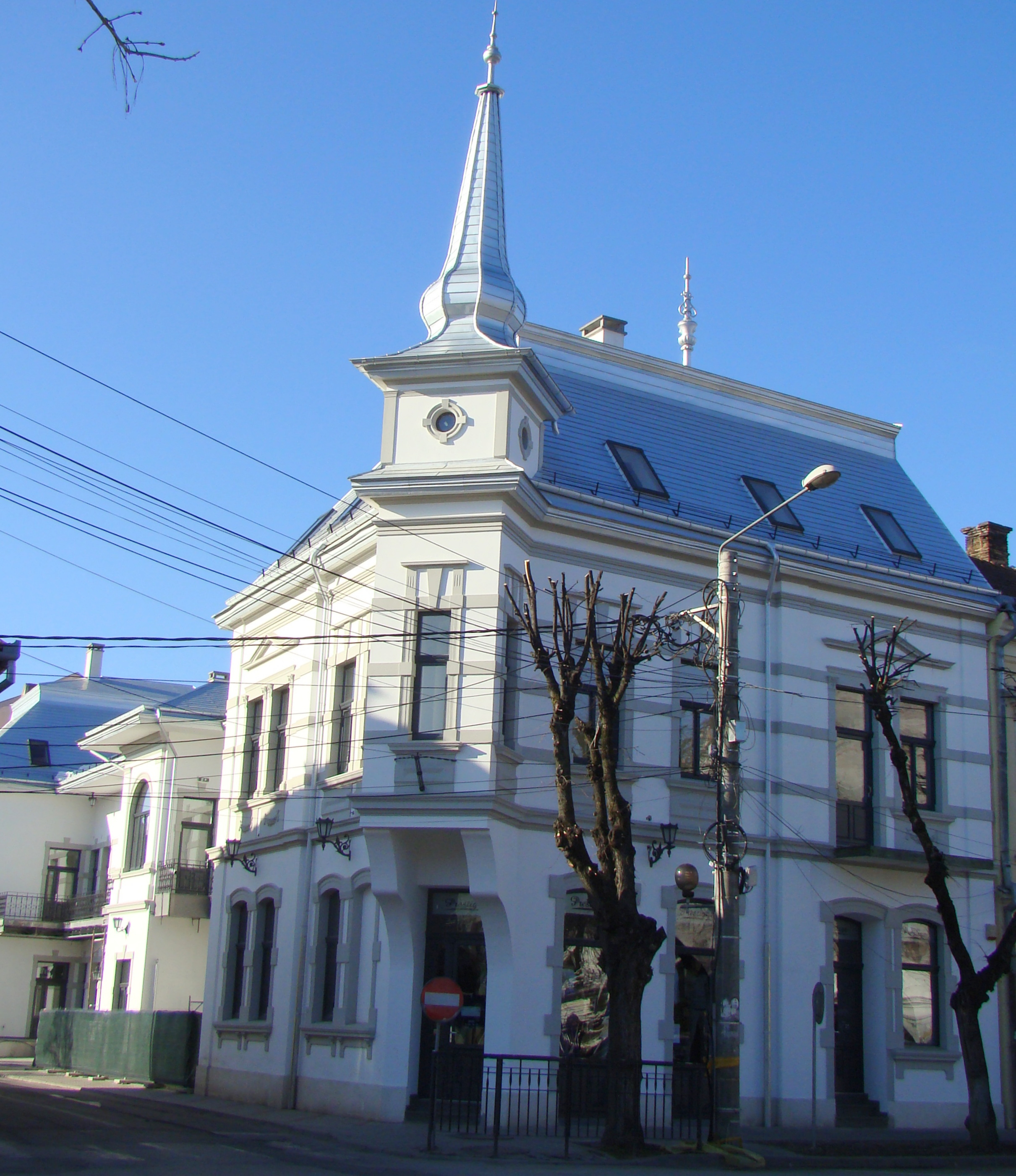 House, historic monument, in Bistriţa, Unirii Square, number 3